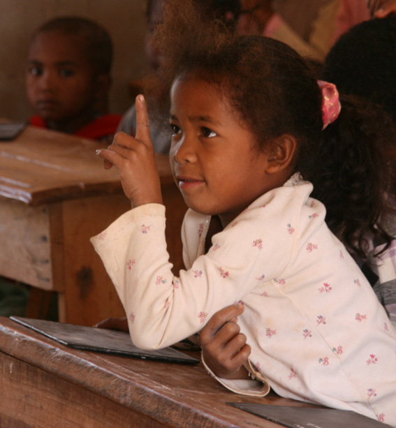 1st grade student at Soamanandray (one of the schools helped by Keelonga) knows the answer to the question in French class!